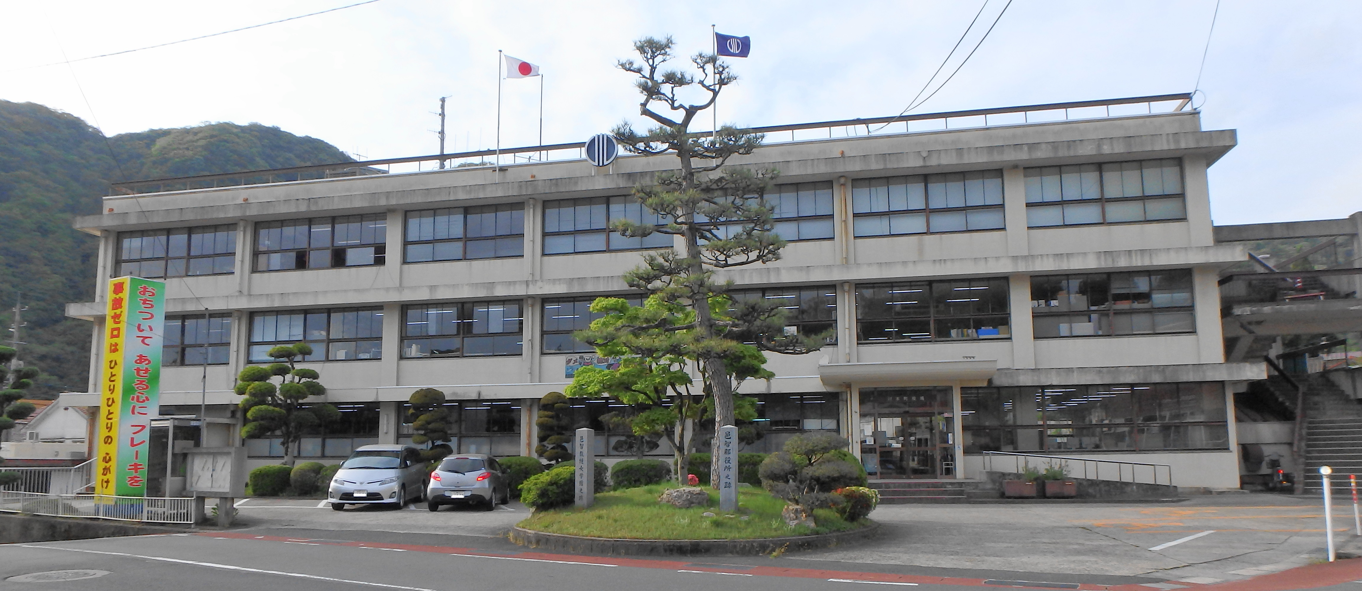 Kawamoto town hall, Shimane prefecture,Japan